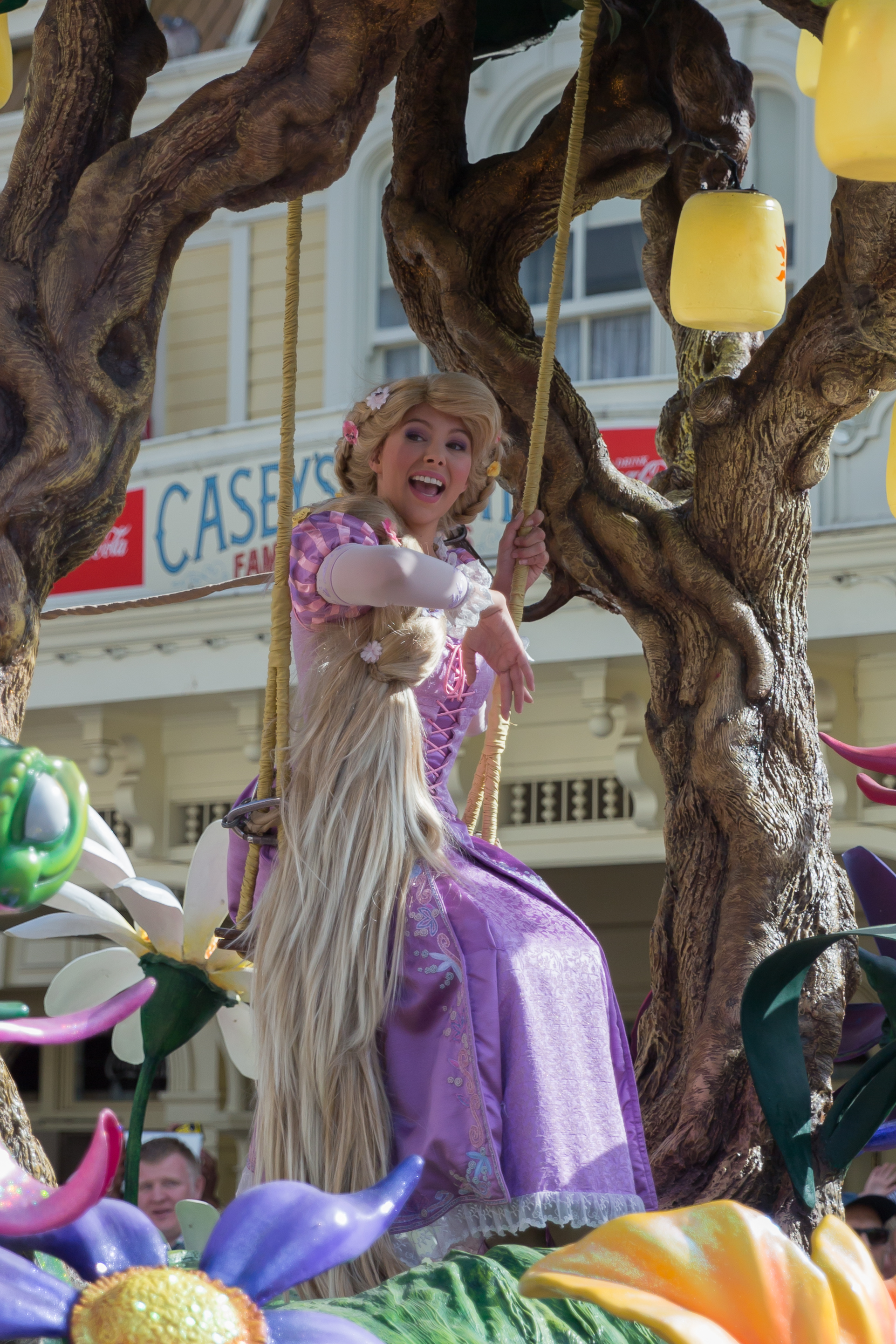 Rapunzel in the Disney Magic On Parade in Disneyland Paris.